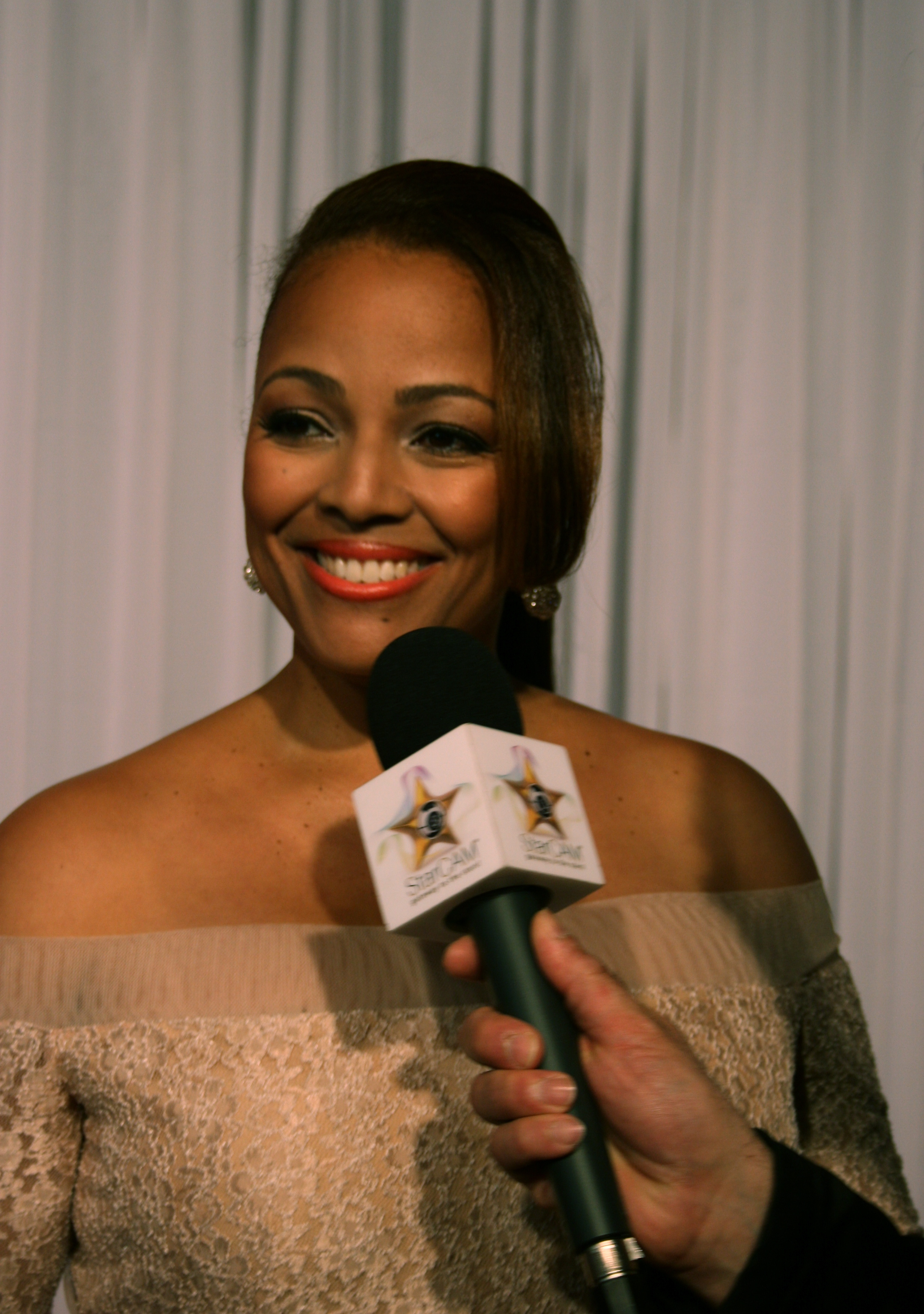 Kim Fields, April, 2011 (